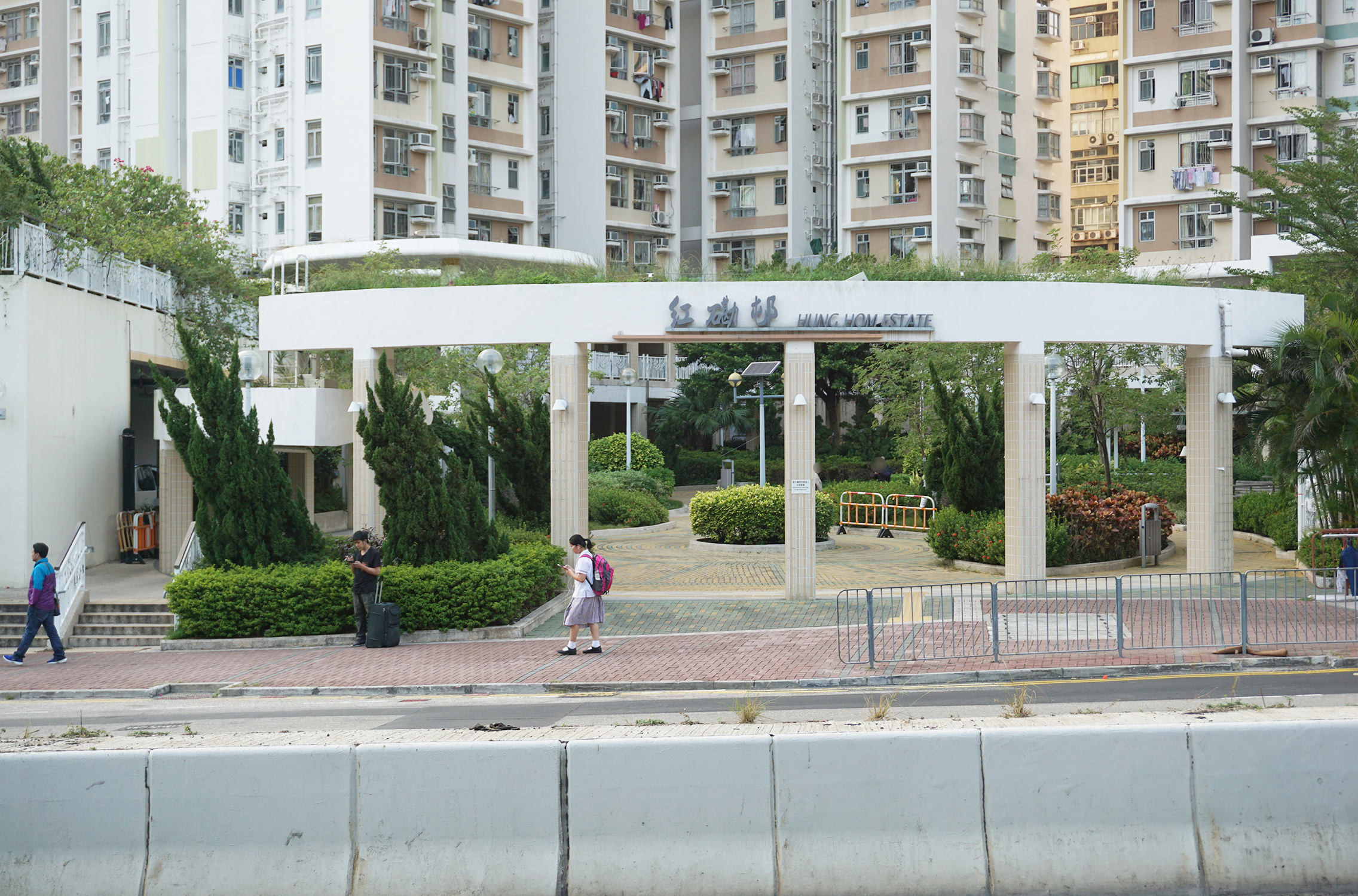 Hung Hom Estate in Whampoa, Hong Kong.